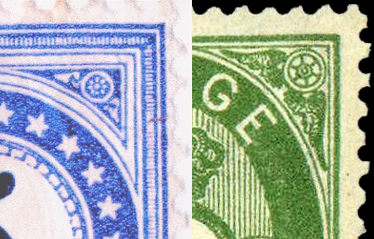 Design comparision with postage stamps of Switzerland and Norway, 1872 and 1878. Railway wheels.